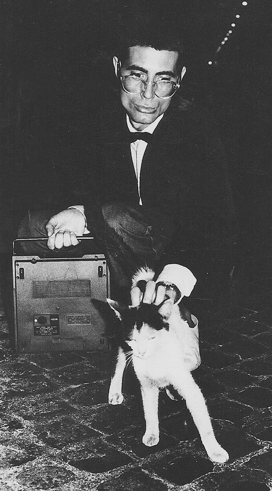 Graziano Origa, italian punk artist, editor, art designer. Photo by Joe Zattere, Rome 1980.